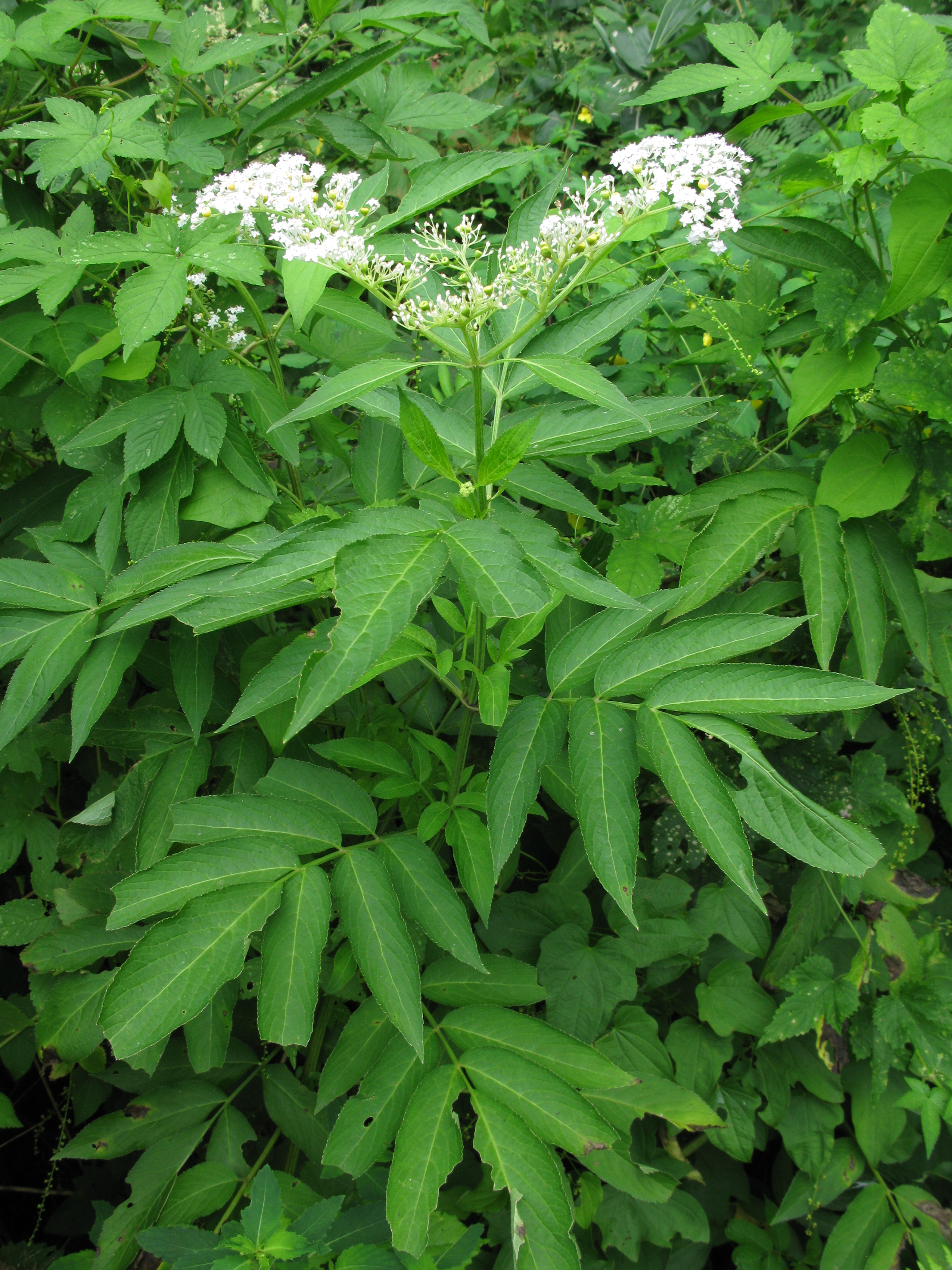 Sambucus chinensis, Aizu area, Fukushima pref., Japan